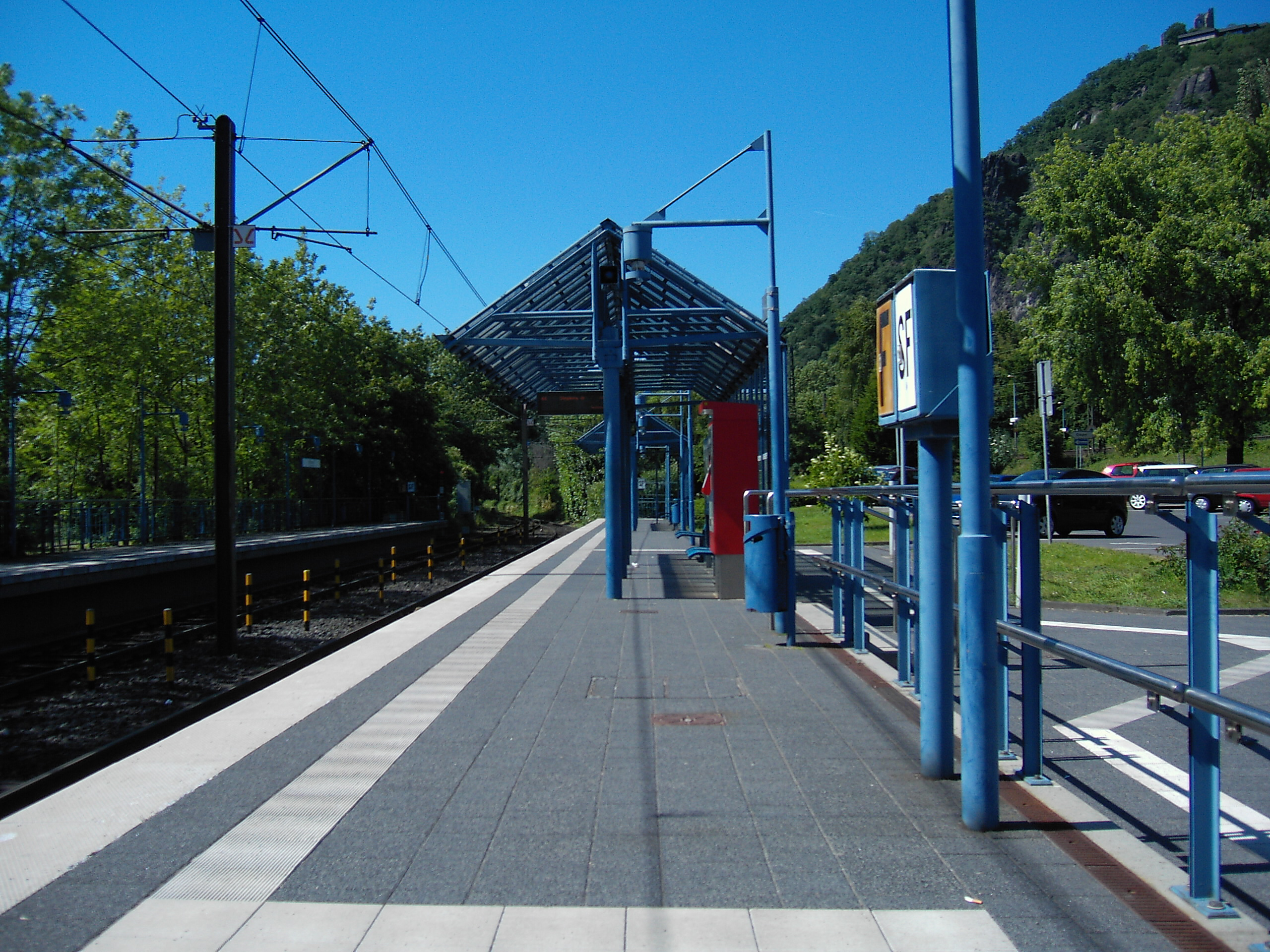 The city railway stop Rhöndorf of the city railway line 66 in Bad Honnef.